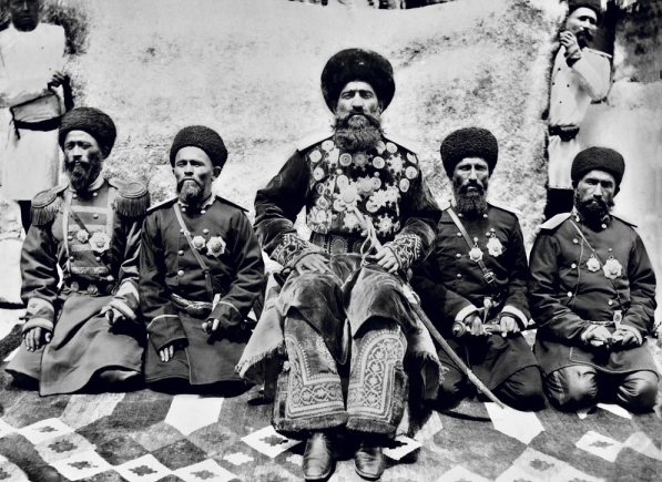 Samarkand